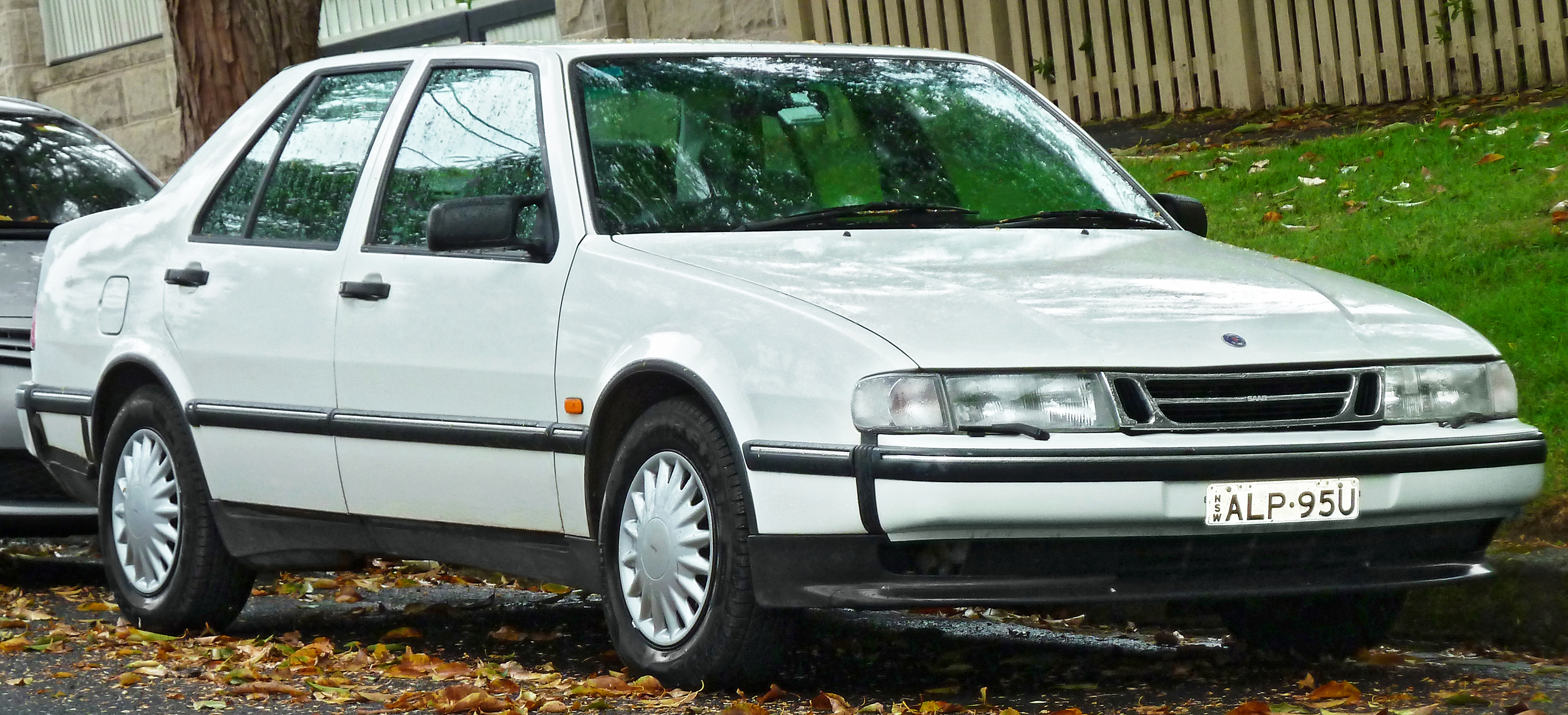 1994–1997 Saab 9000 CD 2.3t sedan. Photographed in Roseville, New South Wales, Australia.